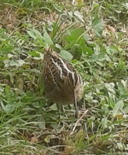 Great Snipe Gallinago media, Kilnsea, East Riding of Yorkshire, England.15 September 2013.